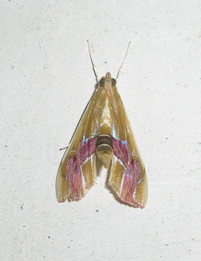 Agathodes ostentalis (Crambidae, Spilomelinae), Mudigere, India (Determination courtesy: Roger Kendrick )